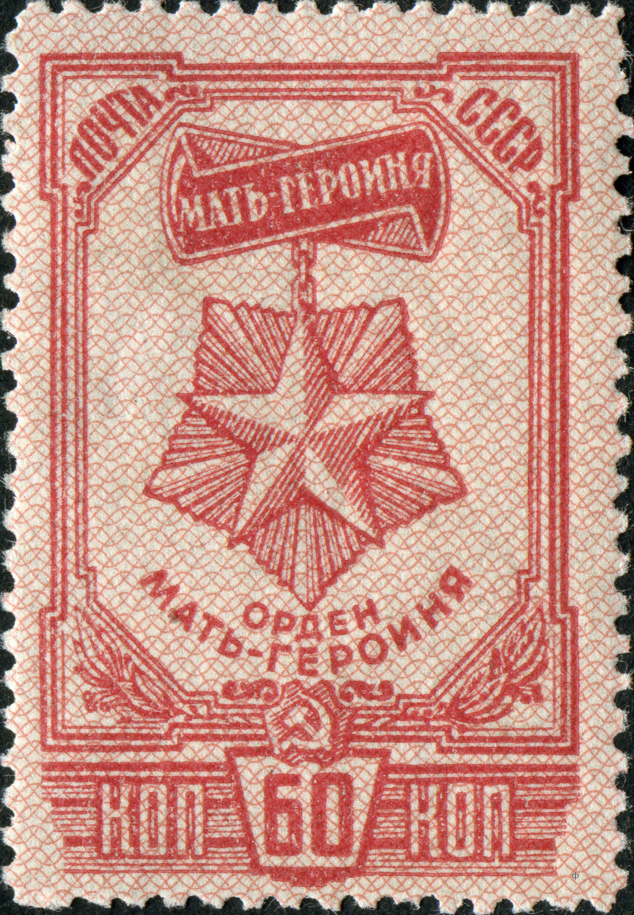 A USSR stamp, Awards of the Soviet Union